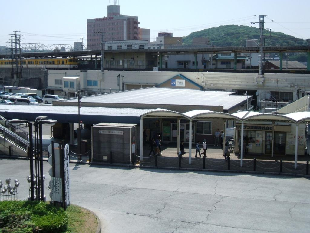 Shimonoseki Station (East gate) / JR下関駅